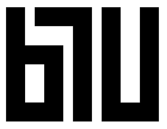 Blu (artist) logotype